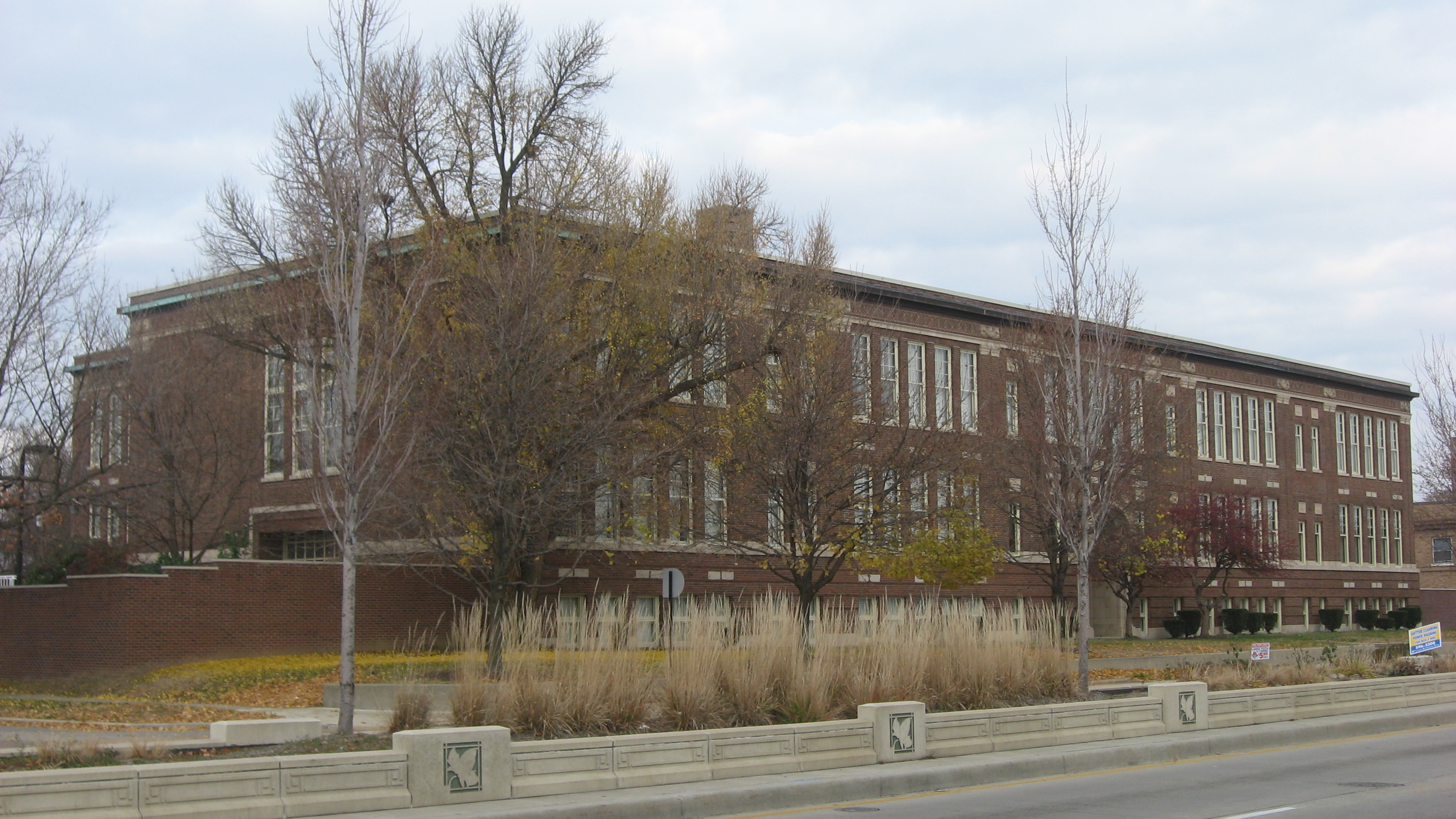 Front of Henry P. Coburn Public School No. 66, located at 604 E. Thirty-eighth Street in Indianapolis, Indiana, United States. Built in 1915, it is listed on the National Register of Historic Places.